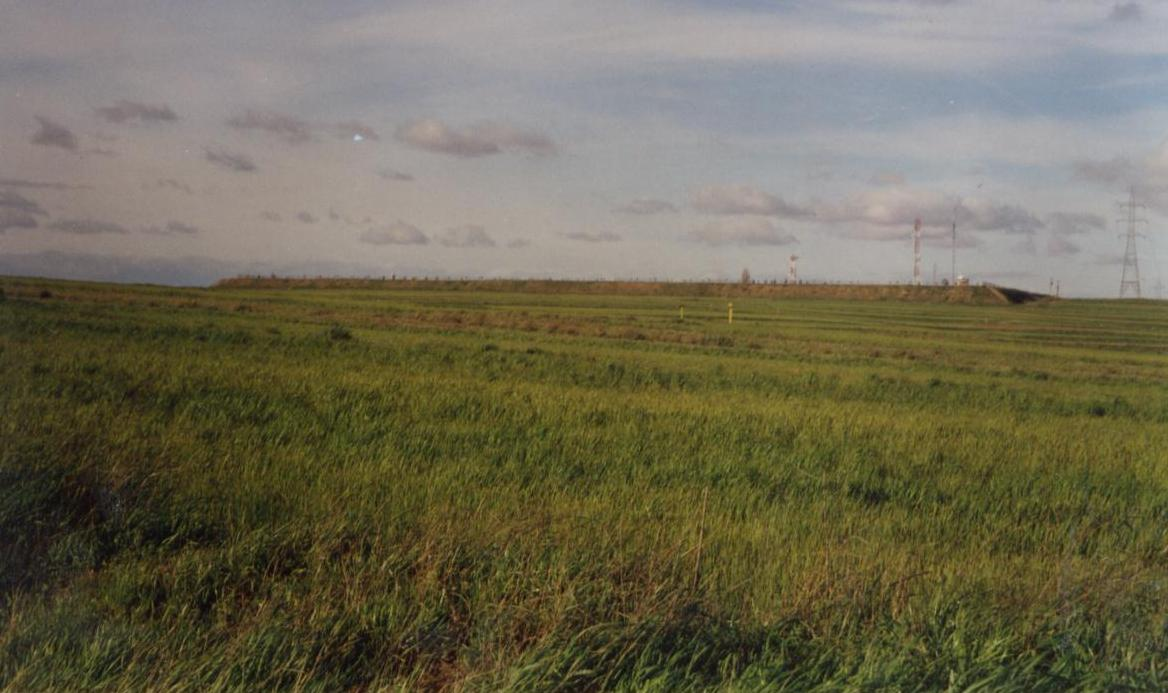 Hill of Buenavista, Getafe, (Madrid), Spain Author: Miguel303xm Date: April 14th, 2004 Place: Hill of Buenavista, Getafe, Madrid, Spain